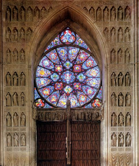 Reims, Portal from the Interior